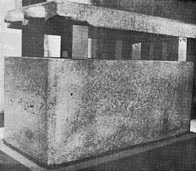 Sarcophagus of Kaemsekhem, Gizeh, 4th dynasty, Egyptian Museum Cairo